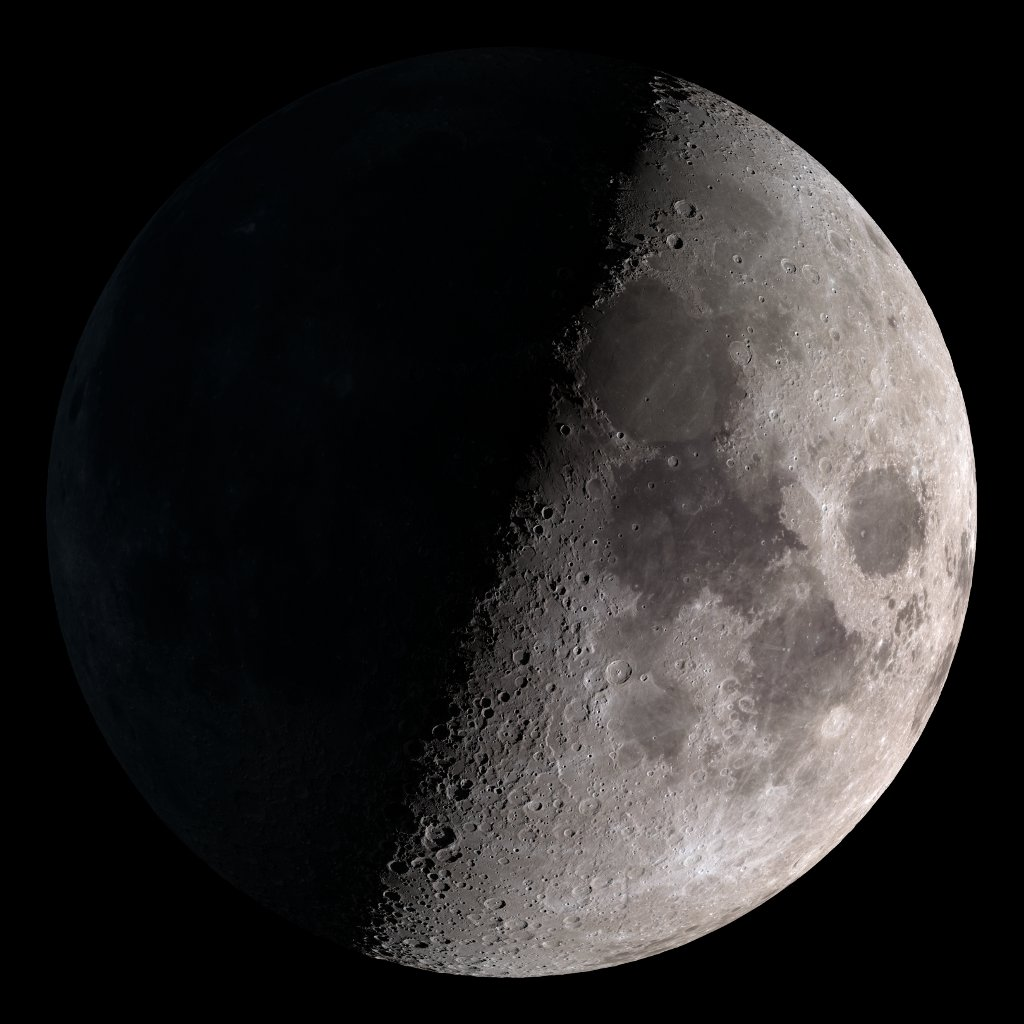 First quarter. Visible high in the southern sky in early evening. NASA's Lunar Reconnaissance Orbiter (LRO) has been in orbit around the Moon since the summer of 2009. Its laser altimeter (LOLA) and camera (LROC) are recording the rugged, airless lunar terrain in exceptional detail, making it possible to visualize the Moon with unprecedented fidelity. This is especially evident in the long shadows cast near the terminator, or day-night line. The pummeled, craggy landscape thrown into high relief at the terminator would be impossible to recreate in the computer without global terrain maps like those from LRO. To download, learn more about this visualization, or to see what the Moon will look like at any hour in 2015, visit NASA image use policy. NASA Goddard Space Flight Center enables NASA’s mission through four scientific endeavors: Earth Science, Heliophysics, Solar System Exploration, and Astrophysics. Goddard plays a leading role in NASA’s accomplishments by contributing compelling scientific knowledge to advance the Agency’s mission. Follow us on Twitter Like us on Facebook Find us on Instagram